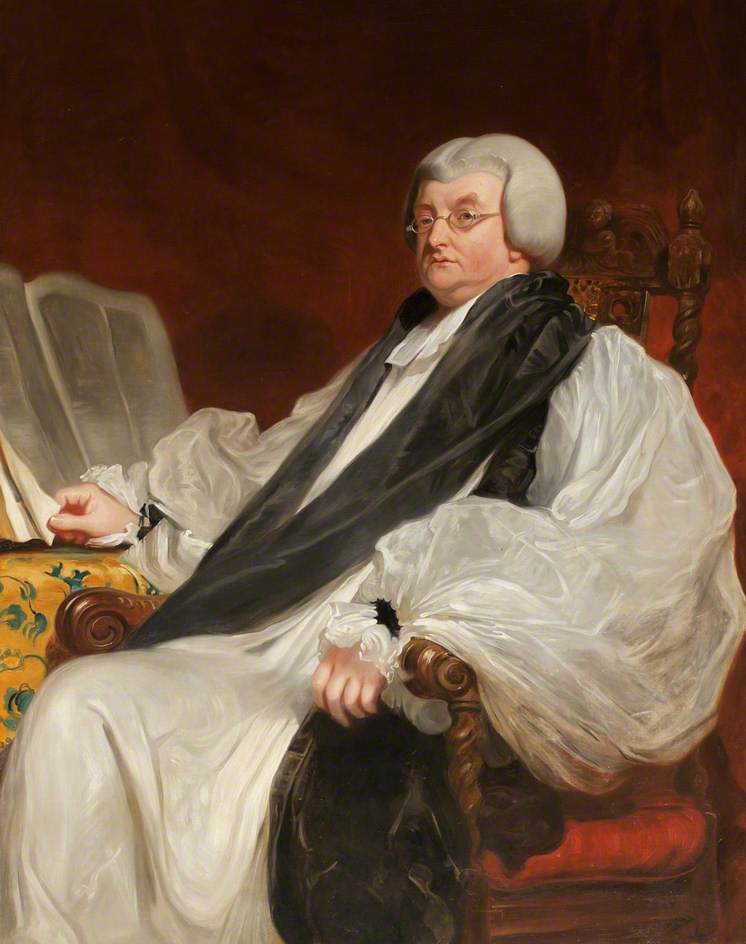 Thomas Burgess, Bishop of Salisbury